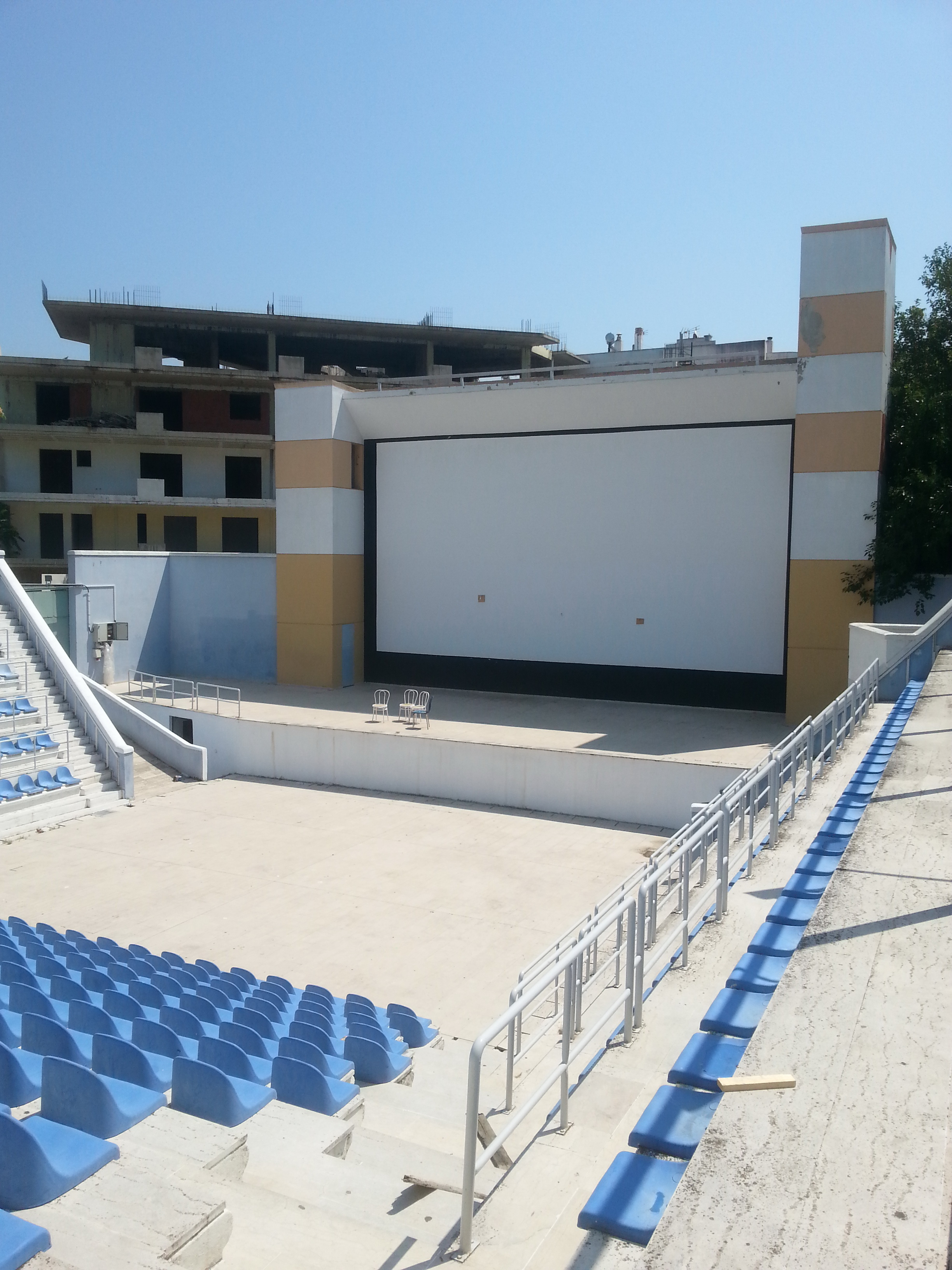 Open theater of municipal and Regional Theatre of Komotini